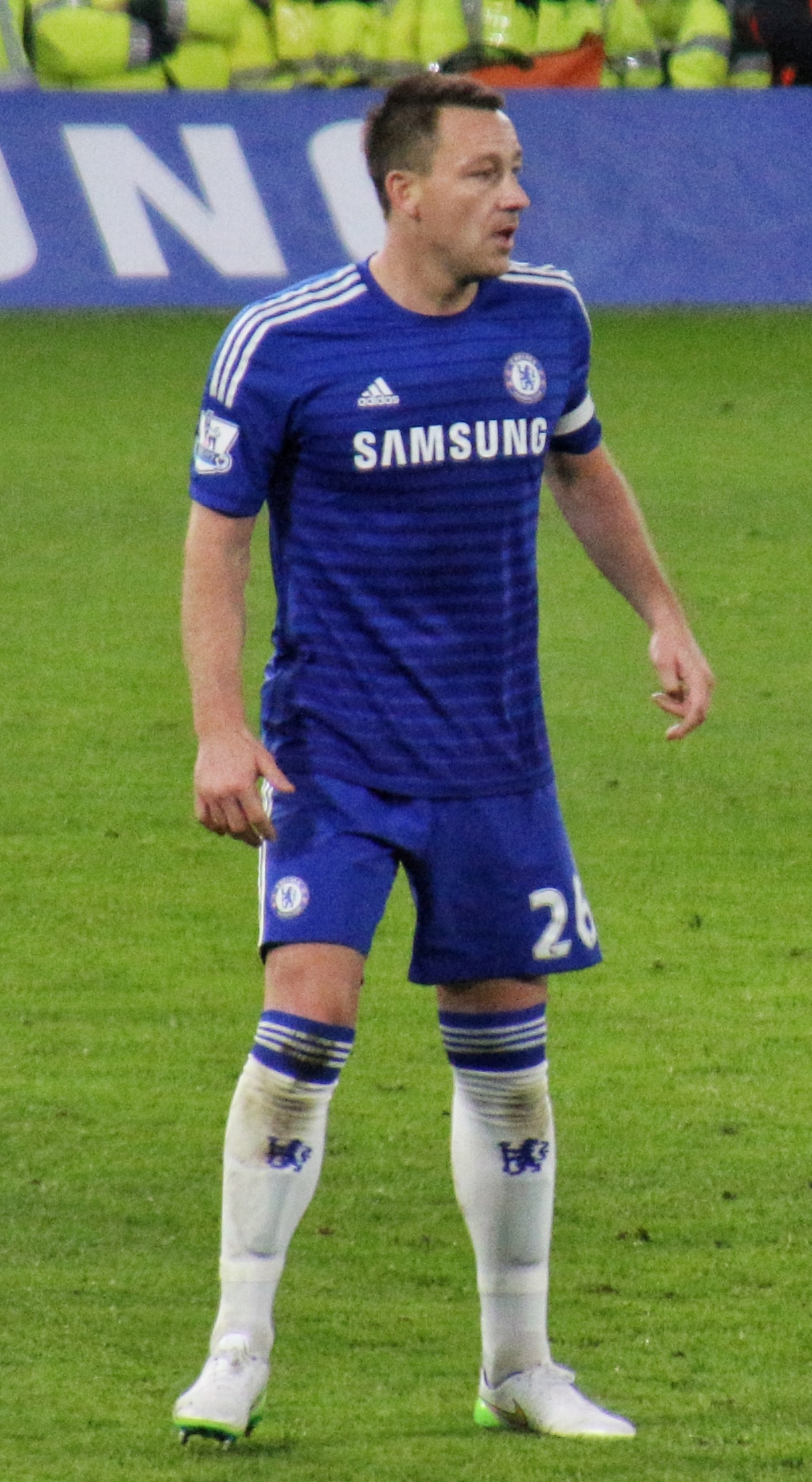 Chelsea 1 lLiverpool 0 (2-1 agg) Capital One Cup semi final 2nd leg On our way to Wembley!